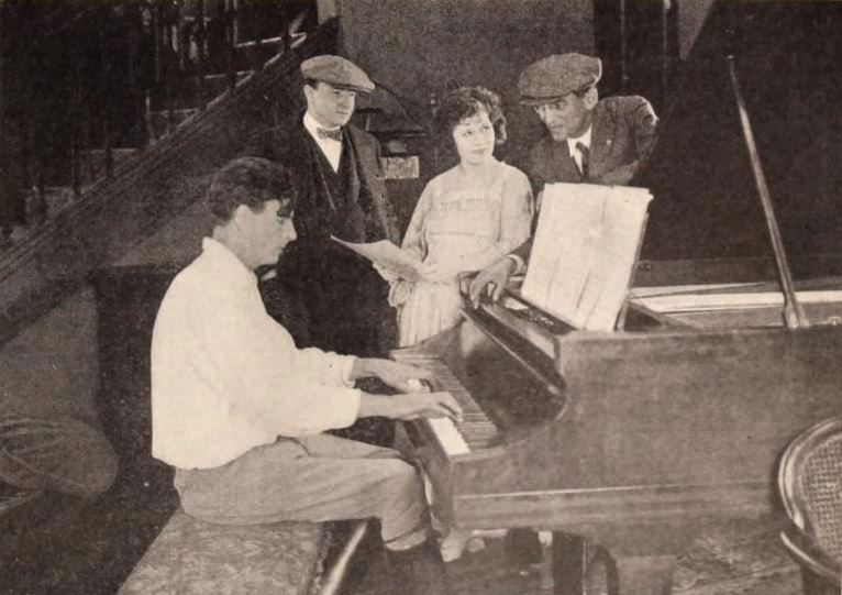 Still from a break during filming of the American drama film The Little Fool (1921) with Milton Sills playing the piano for author Arthur Somers Roche, Ora Carew, and director Phil Rosen, on page 55 of the March 26, 1921 Exhibitors Herald.